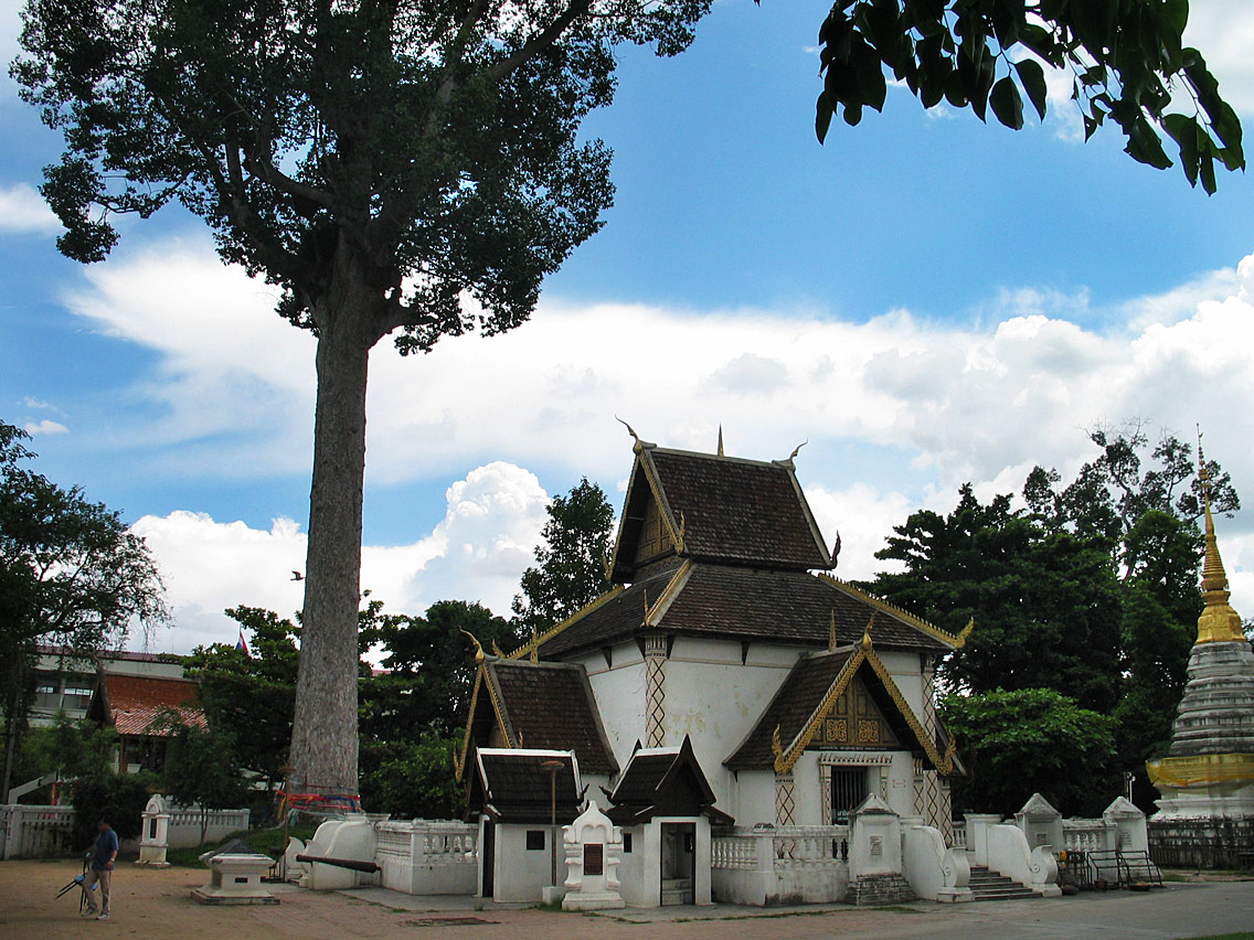 Inthakhin - city pillar building, Wat Chedi Luang, Chiang Mai, Thailand